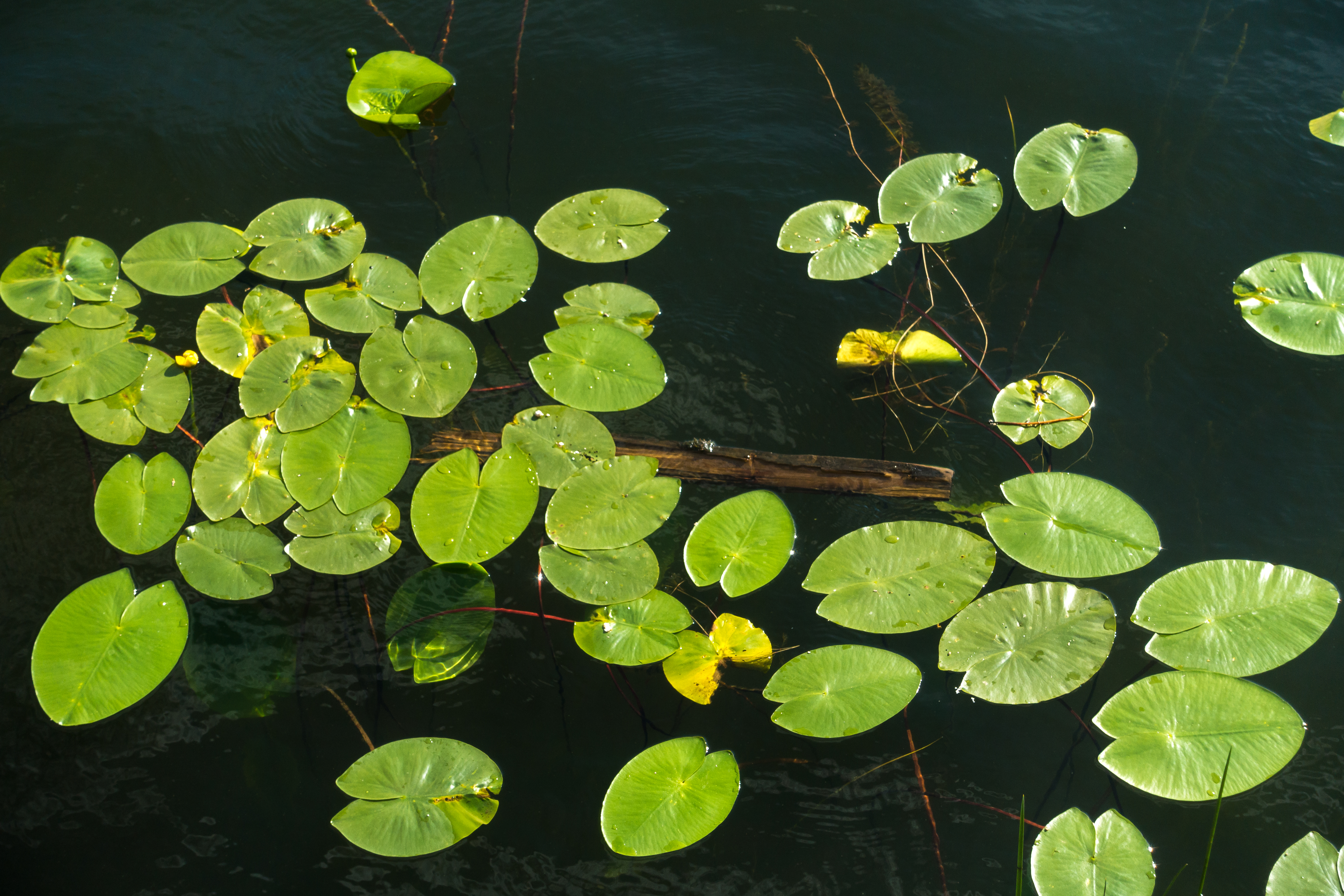 Water lily leaves in Stockholm's stream below Rosenbad in 2020.